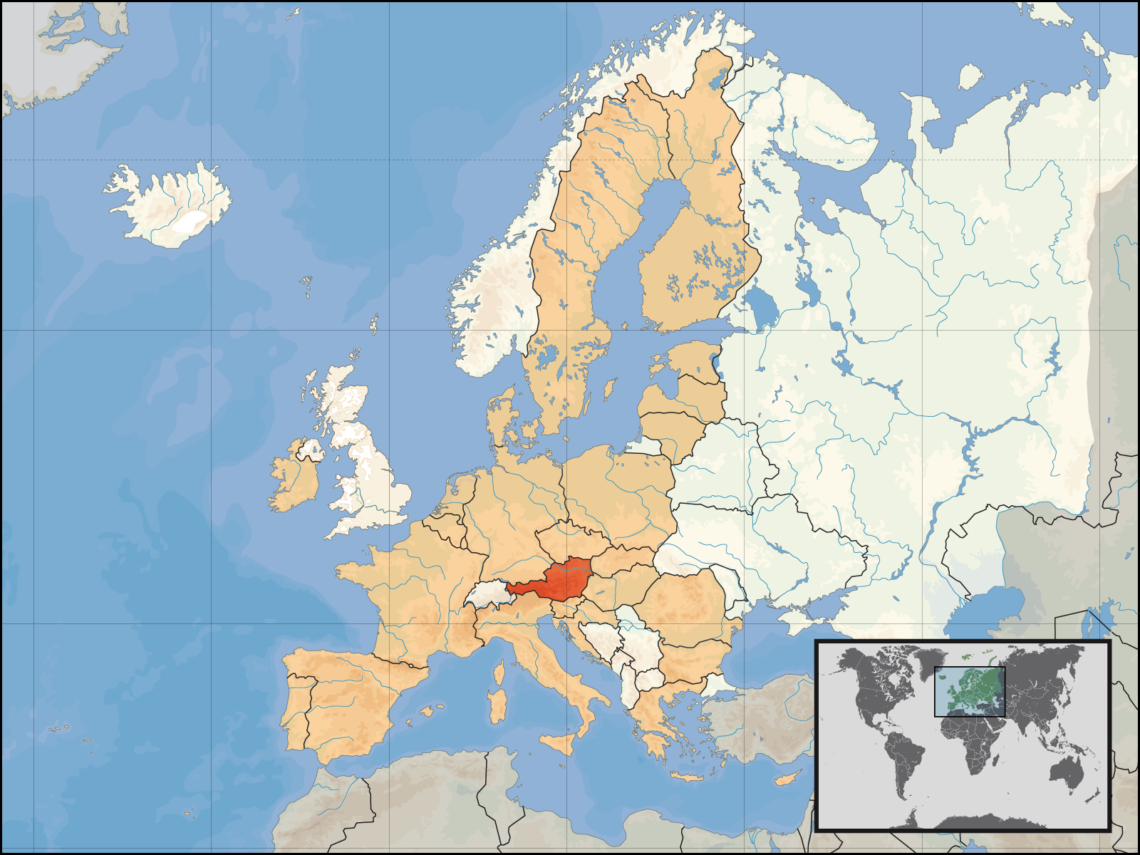 Location of Austria within Europe and the European Union on the 1st of January 2007.